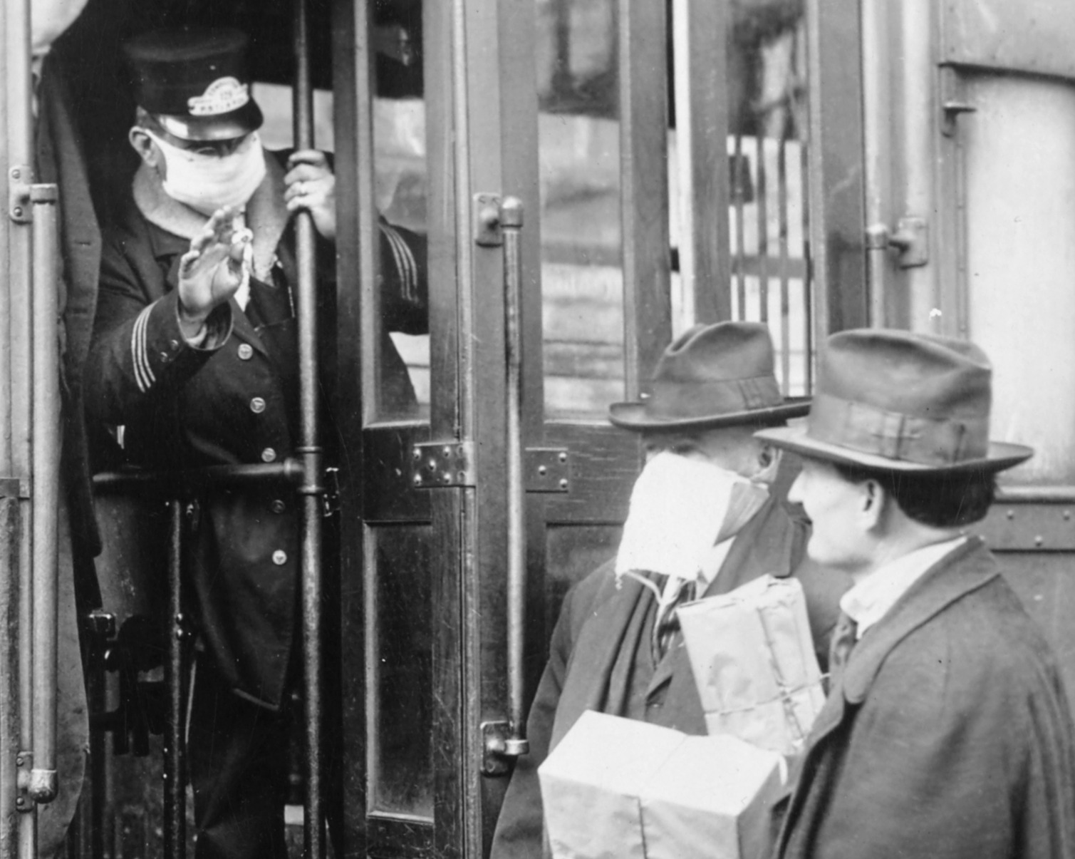 Precautions taken in Seattle, Washington during the "Spanish Influenza" pandemic would not permit anyone to ride on the street cars without wearing a mask. 1918.